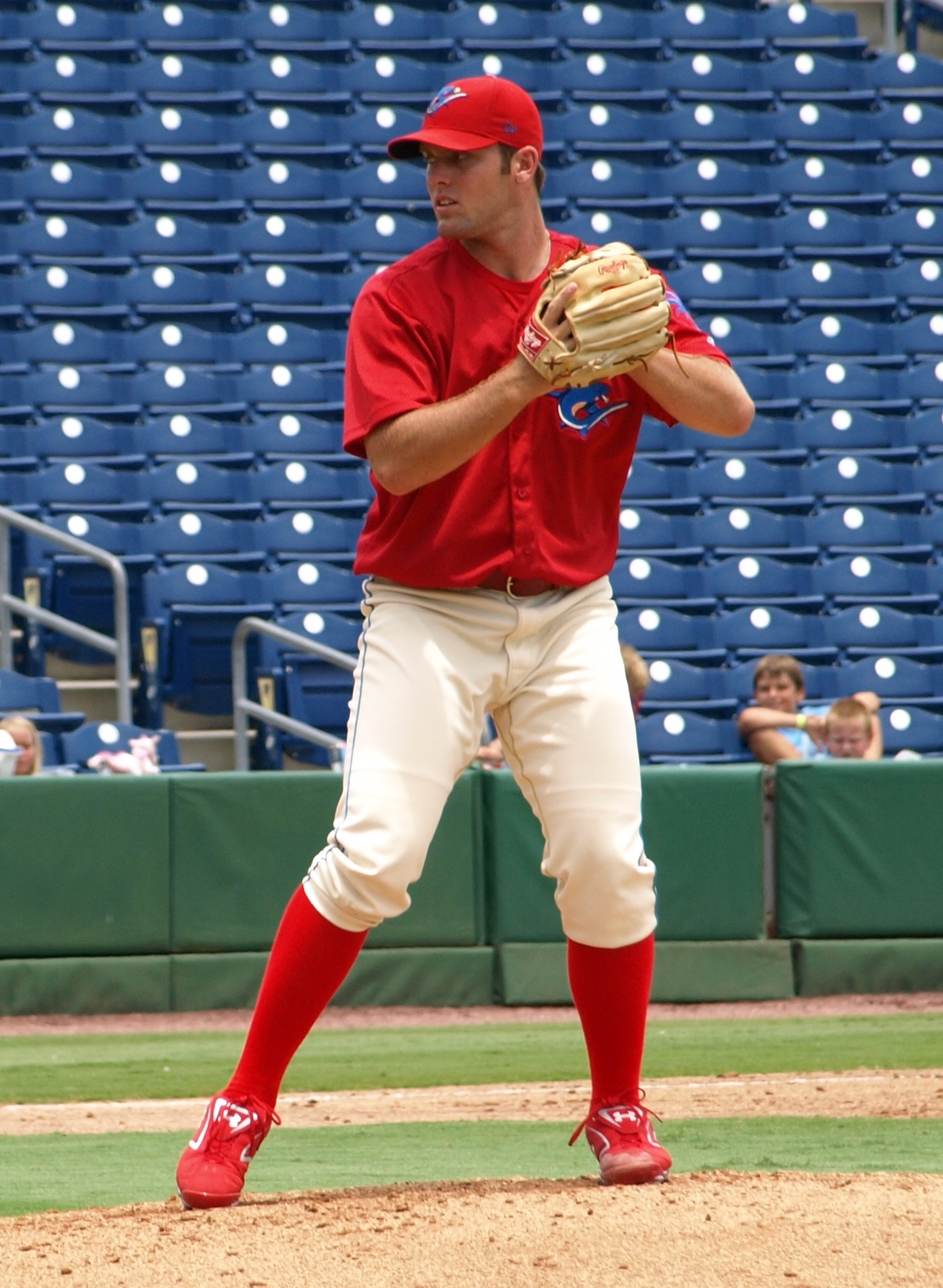 Philadelphia Phillies minor leaguer Joe Savery prepares to pitch for the Clearwater Threshers during a Florida State League game against the visiting Vero Beach Devil Rays on June 25, 2008 at Bright House Networks Field in Clearwater, FL.